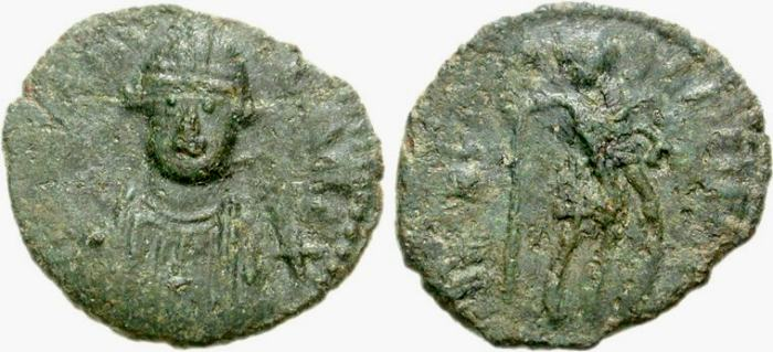 Ostrogoths, Baduila, 541-552 AD. AE Decanummium. 4.31 gr. BADVELA REX, Bust of Baduila, beardless, facing, wearing embroidered robes and crown ornamented with ball at apex, and divided in front by vertical bars into two divisions / FLOREAS SEMPER, figure in military attire standing right, holding spear and shield; X (value) to right. BMC 44-49; COI 98b; MEC 1, 162; MIB 90b.